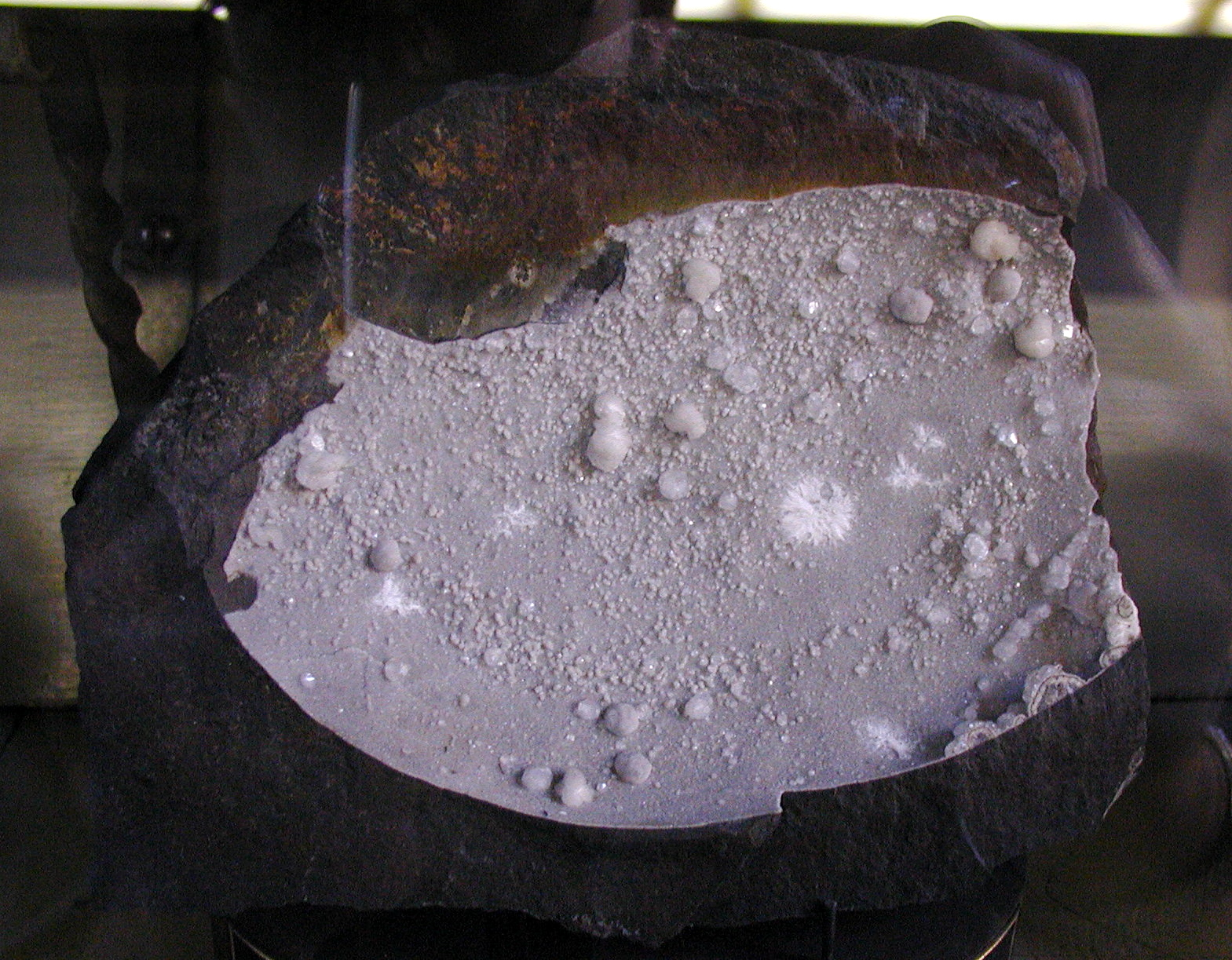 Phillipsite - National Museum, Prague